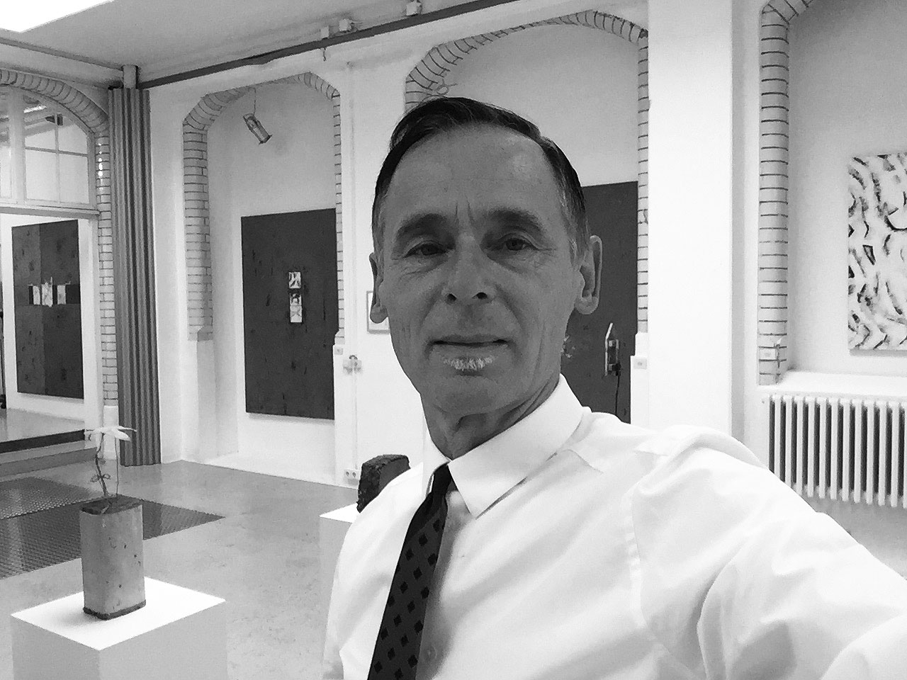 Bernd Erich Gall at his studio, Kollmar & Jourdan-Haus, Pforzheim, Germany